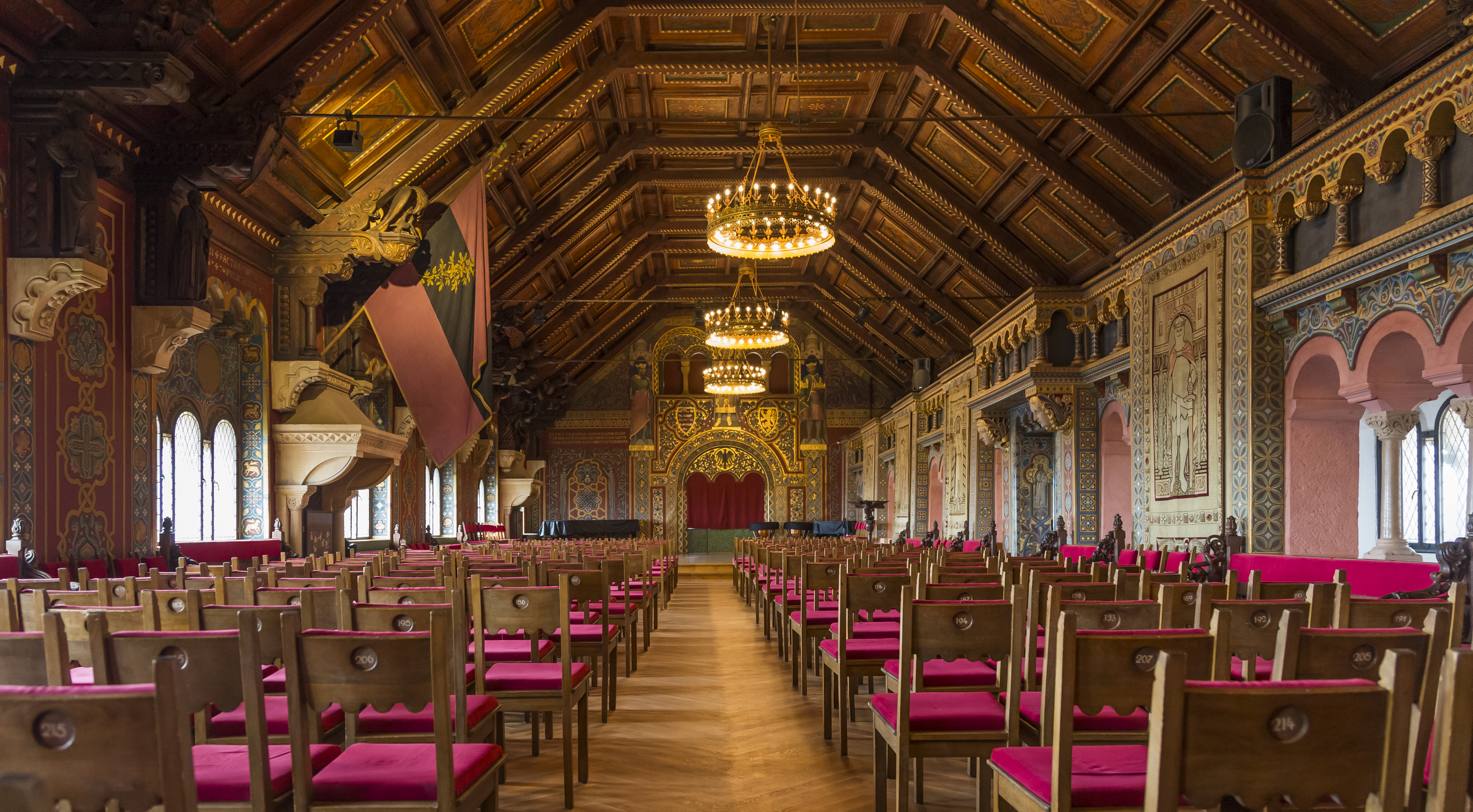 Eisenach, Germany: Festsaal in Wartburg Castle